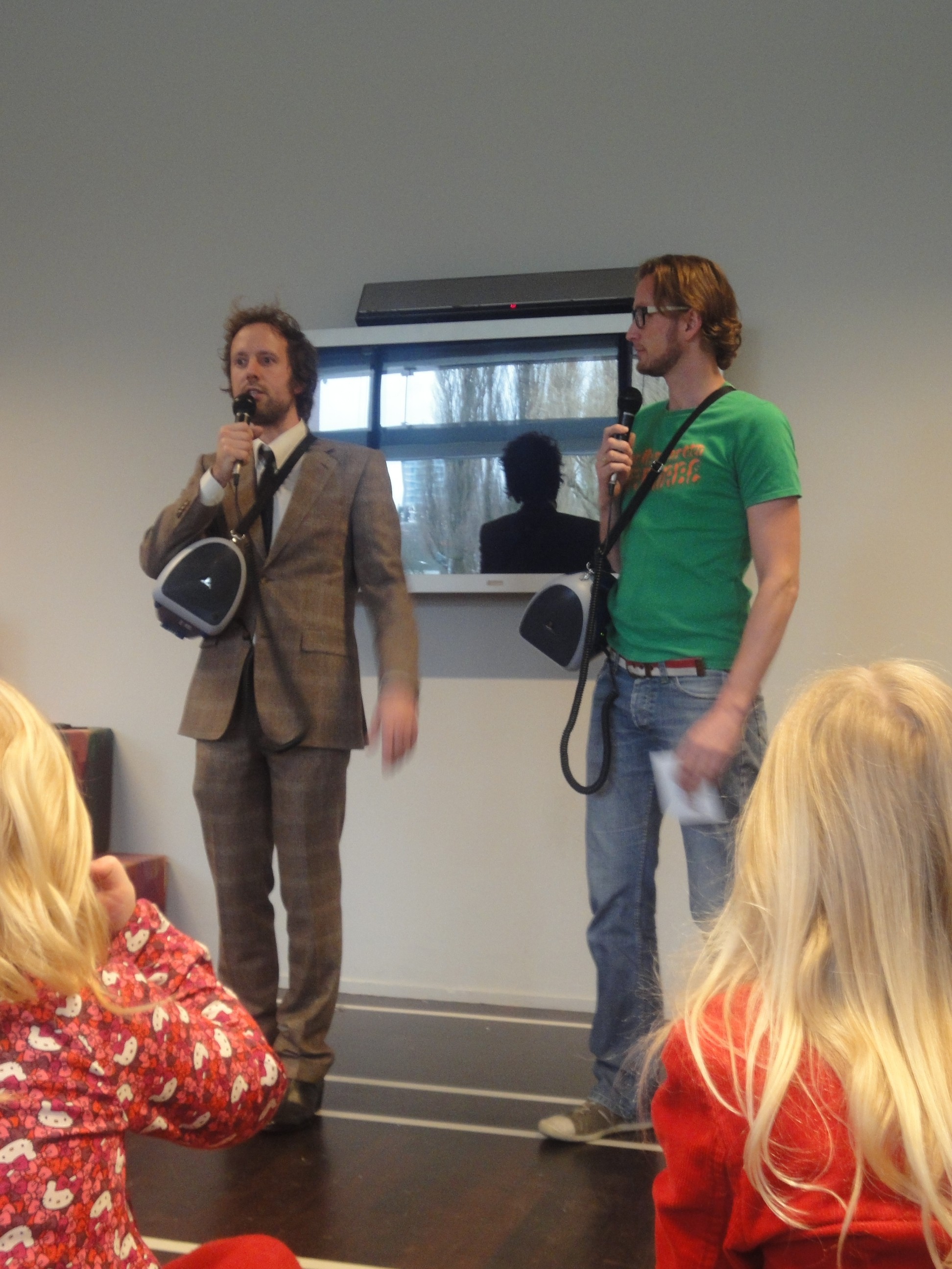 Opening of the Boijmans Museum excibition 'Boijmans in Staat van Verwarring' Personality rights warning Although this work is freely licensed or in the public domain, the person(s) shown may have rights that legally restrict certain re-uses unless those depicted consent to such uses. In these cases, a model release or other evidence of consent could protect you from infringement claims.